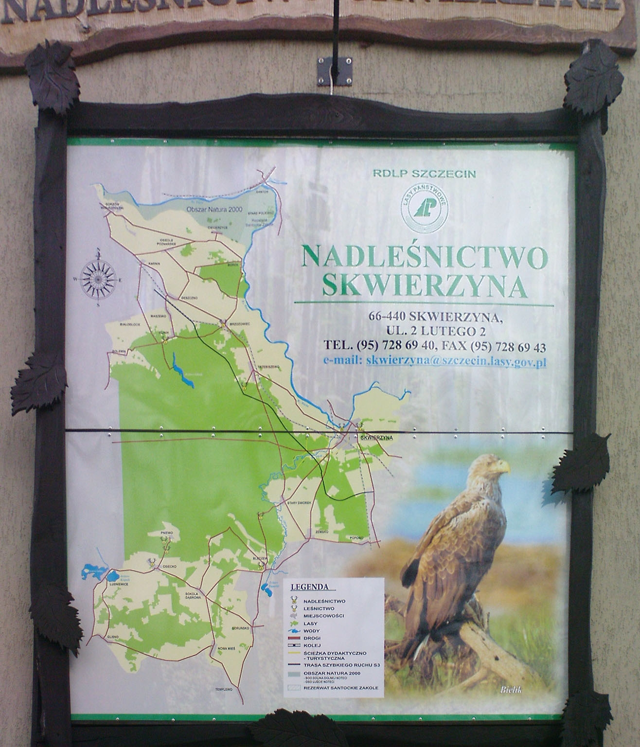 Skwierzyna Forestry Information Board